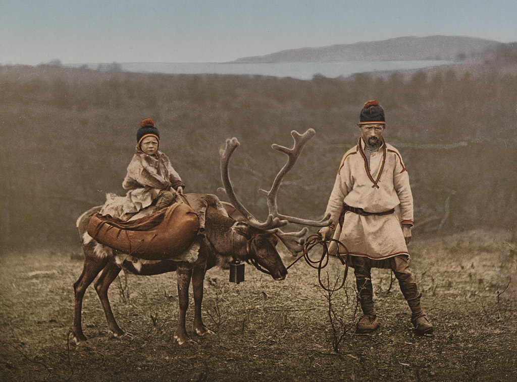 Tittel / Title: 7122. Lapper og Reinsdyr Dato / Date: ca 1890-1900 Fotograf / Photographer: ukjent / unknown Sted / Place: Finnmark Eier / Owner Institution: Nasjonalbiblioteket / National Library of Norway Lenke / Link: Bildesignatur / Image Number: bldsa_FA0695